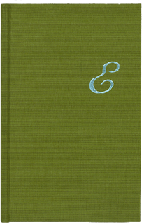 Original 2003 hardcover version of Anthropology of an American Girl, written by Hilary Thaye Hamann and published by Vernacular Press